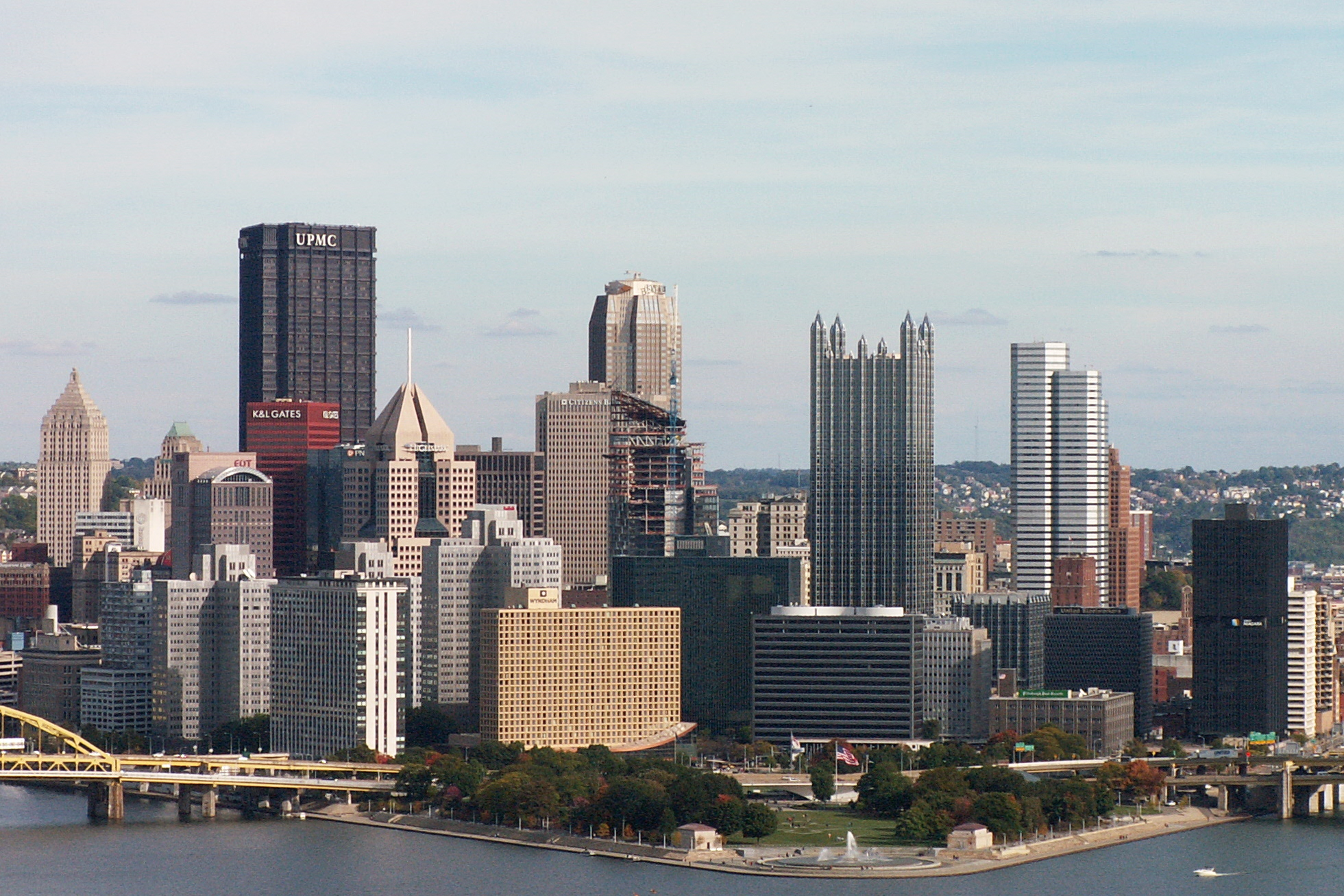 The skyline of Pittsburgh from the West End Overlook in the Elliott neighborhood